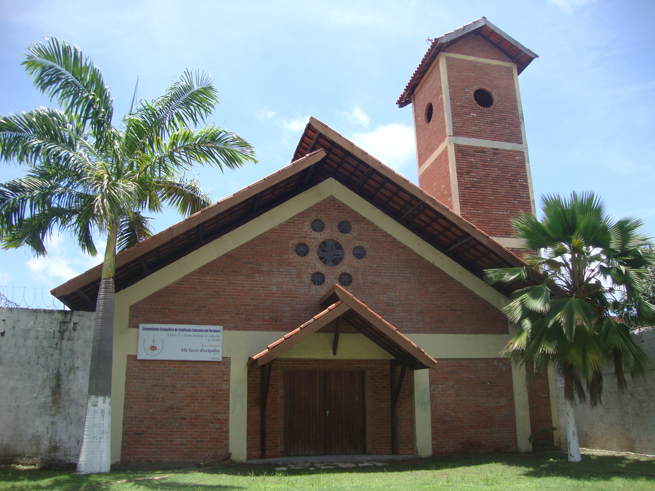 Evangelical Church of the Lutheran Confession in Brazil, in Fortaleza - CE, Brazil.